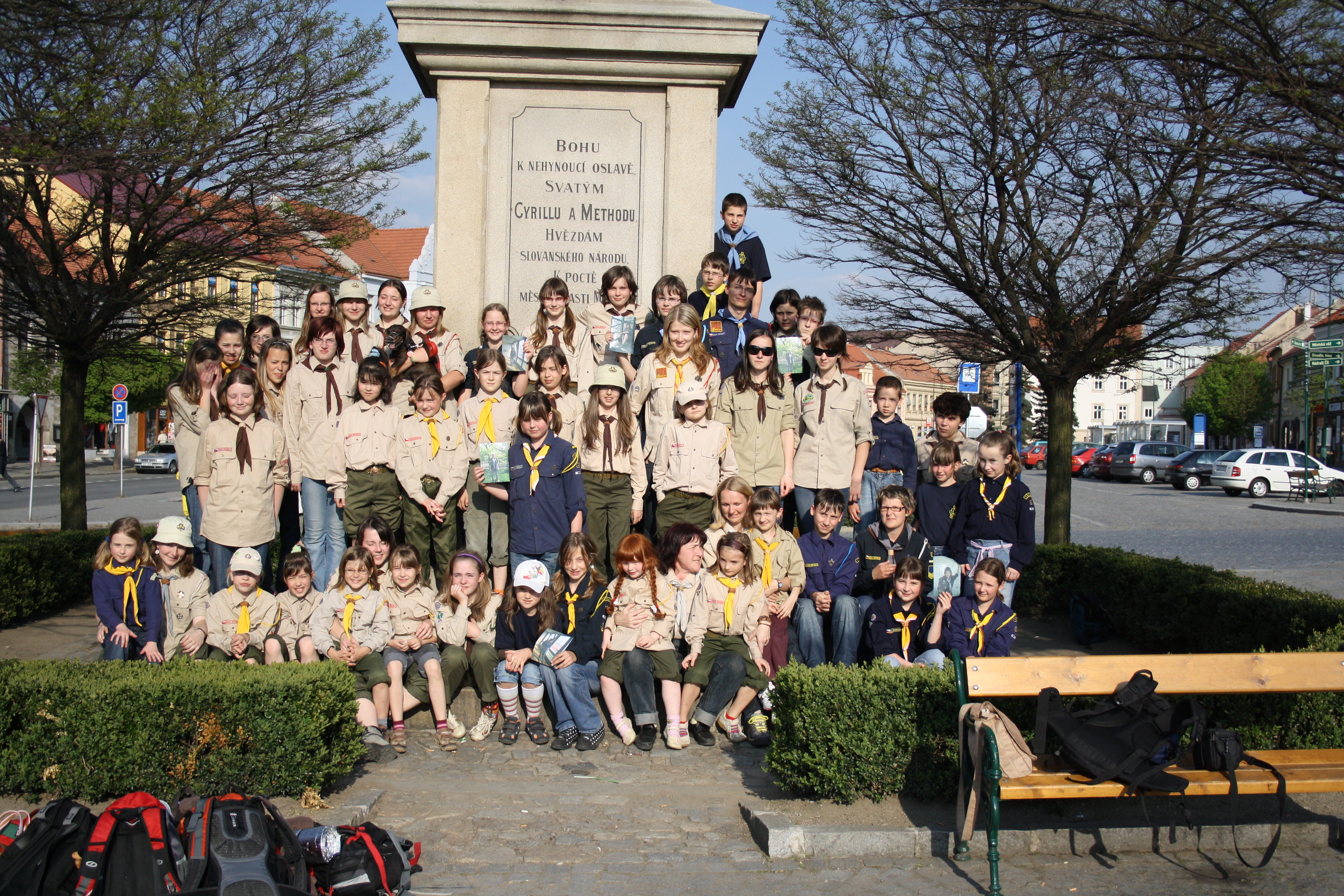 Scout girls at Day in uniforms at Charles Square in Třebíč, Czech Republic.